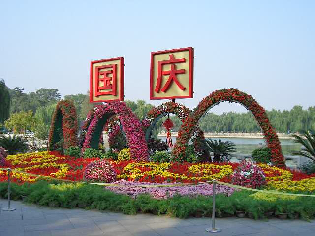 Flower decorations to celebrate National Day of the People's Republic of China at Beijing's Beihai Park in 2004. The signboards read "国庆" (guóqìng; literally "country celebrate") meaning "National Day".